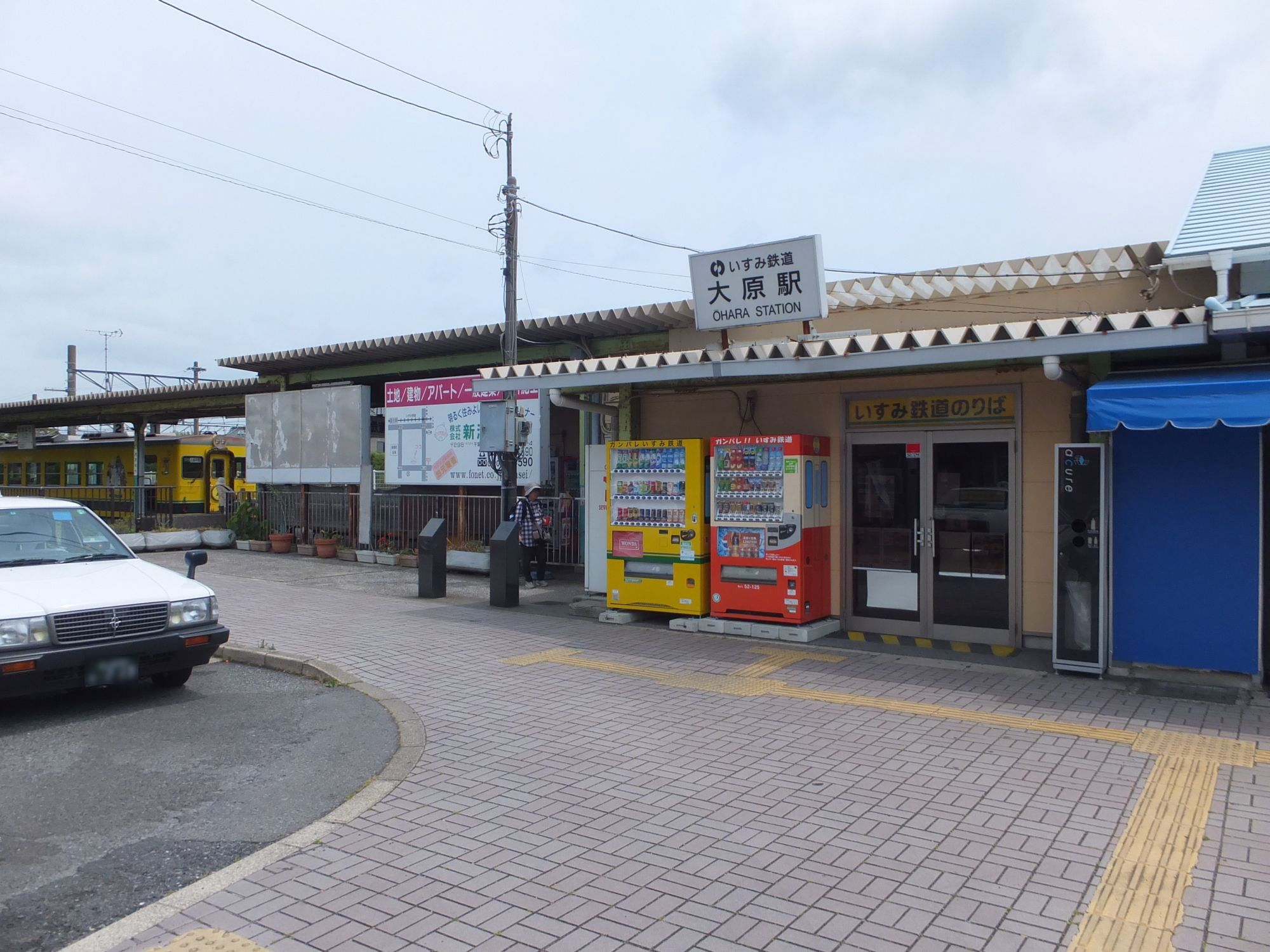 Ōhara Station on the Isumi Railway in Isumi, Chiba, Japan